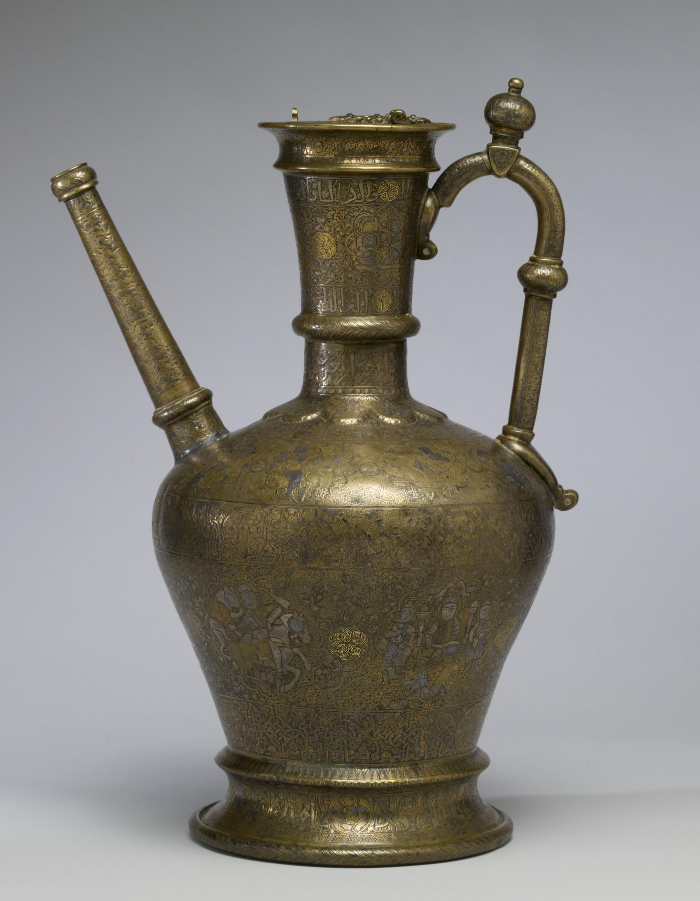 In a notable artistic innovation, medieval Islamic artisans used precious metals- gold, silver, and copper- to decorate bronze and brass objects. The richly decorated surface of this ewer features multiple bands of Arabic inscriptions and scalloped medallions enclosing musicians, enthroned figures, hunters, and other scenes characteristic of medieval Islamic art. The presence of the artist's signature here is noteworthy since the medieval Islamic artisan generally remained anonymous. Yunus ibn Yusuf styles himself al-naqqash, or decorator, probably signifying that he was responsible for executing the inlaid designs. He also ends his name al-Mawsili, meaning "from Mosul," a famous metalworking center in northern Iraq. However, Yunus ibn Yusuf could just as easily have been working in Syria, where metal workshops produced similar inlaid vessels during the 13th century.